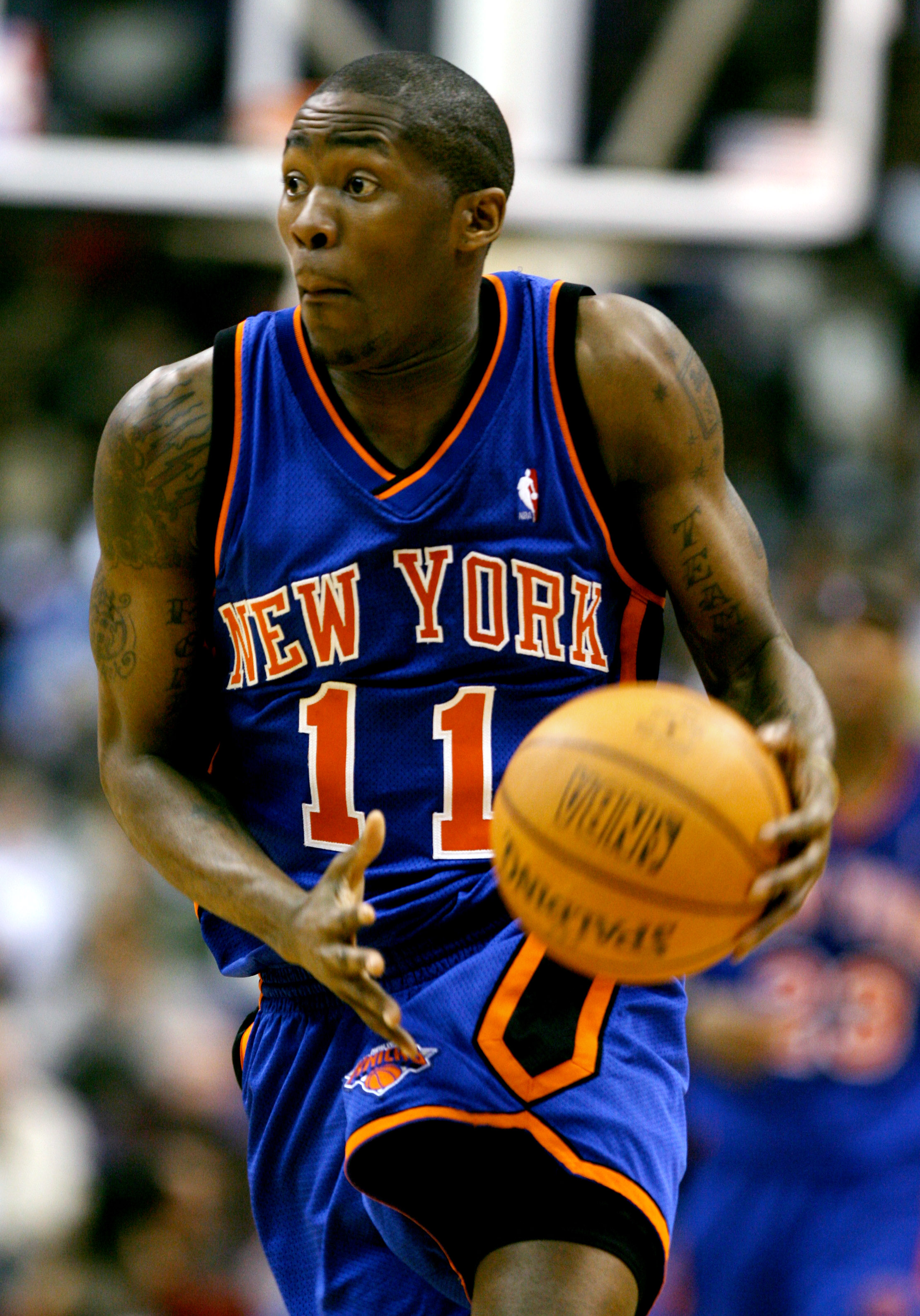 Jamal Crawford playing with the New York Knicks